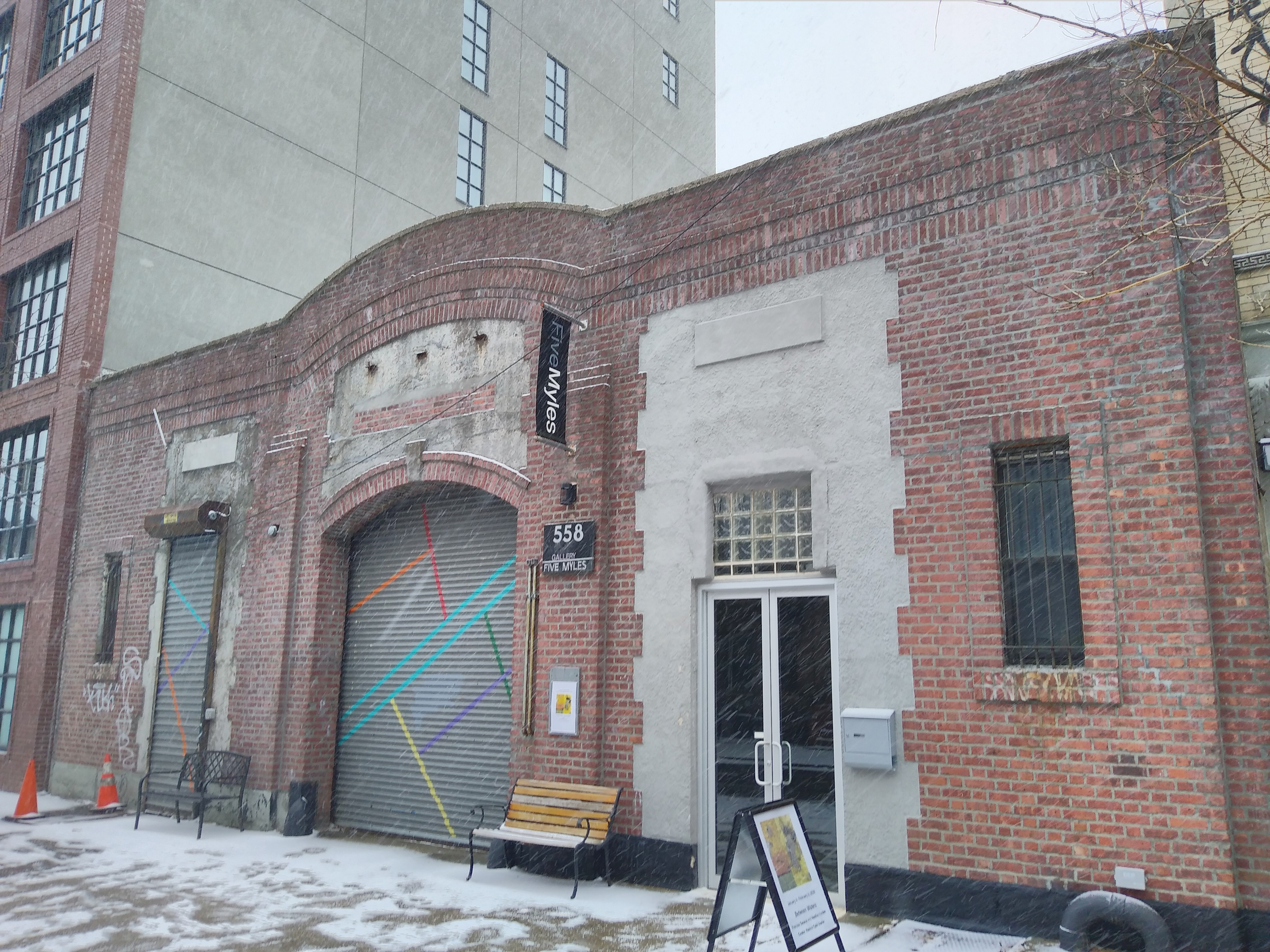 Five Myles Gallery